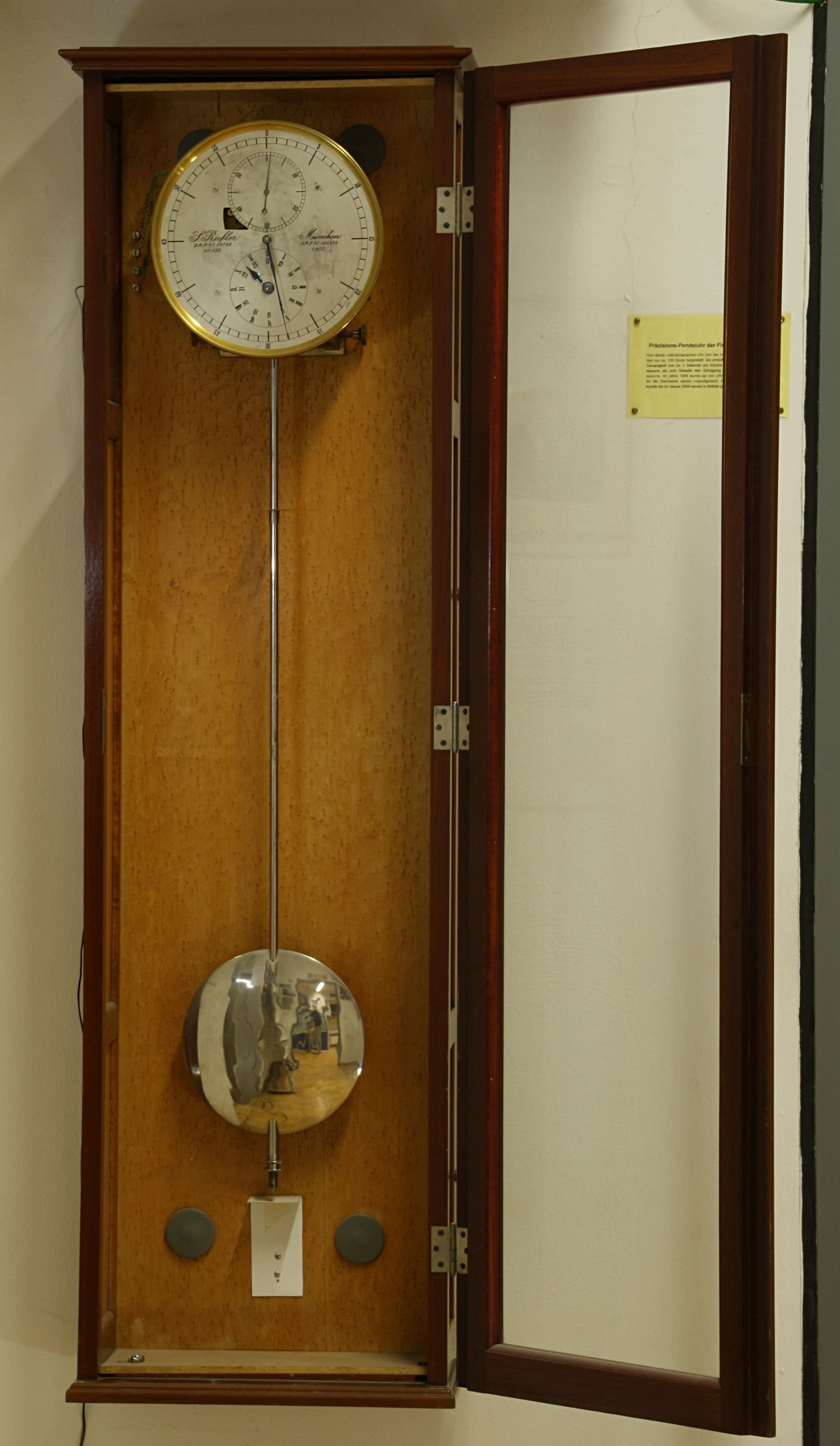 A Riefler precision pendulum clock, manufactured in 1905 in Munich, Germany. It is exhibited in the Volkssternwarte Regensburg.